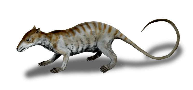 Jeholodens jenkinsi, a triconodont mammal from the Middle Cretaceous of China, pencil drawing, digital coloring